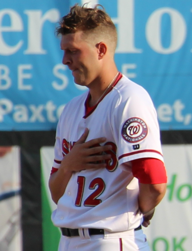 In celebration of our 100th year anniversary, patrons were invited to join us at the Harrisburg Senators Arena for Military Night on Jul. 16 at 6:30 p.m. to watch our very own assigned military throw not only the first pitch, but four more courtesy pitches at the Senators Baseball game against Akron Rubber Ducks. The Senators ended up winning the game with a grand slam!